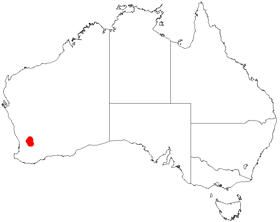 Acacia volubilis occurrence data from Australasia Virtual Herbarium downloaded from on 8 December 2018